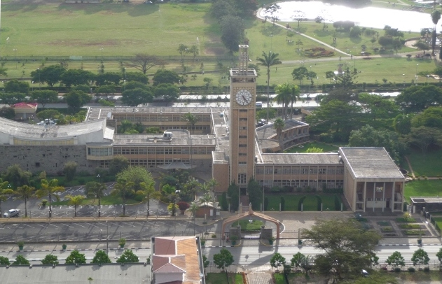 Kenyan parliamentarian building, Nairobi